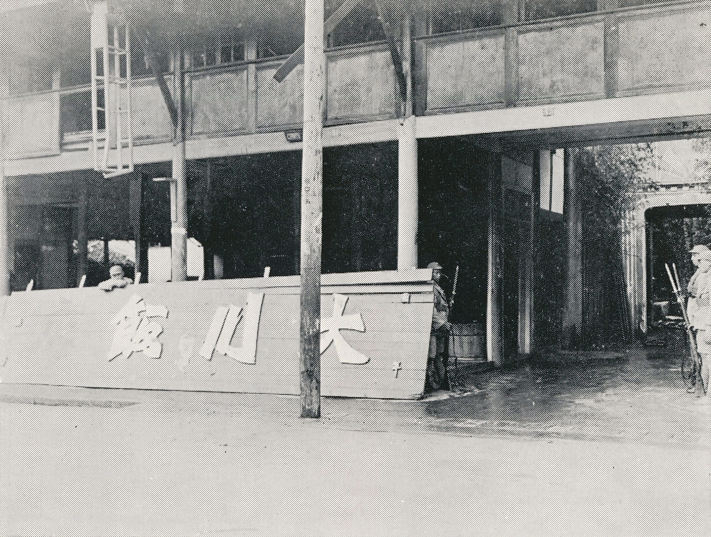 Ta Chuan Hotel immediately after the Chengtu Incident (1936)